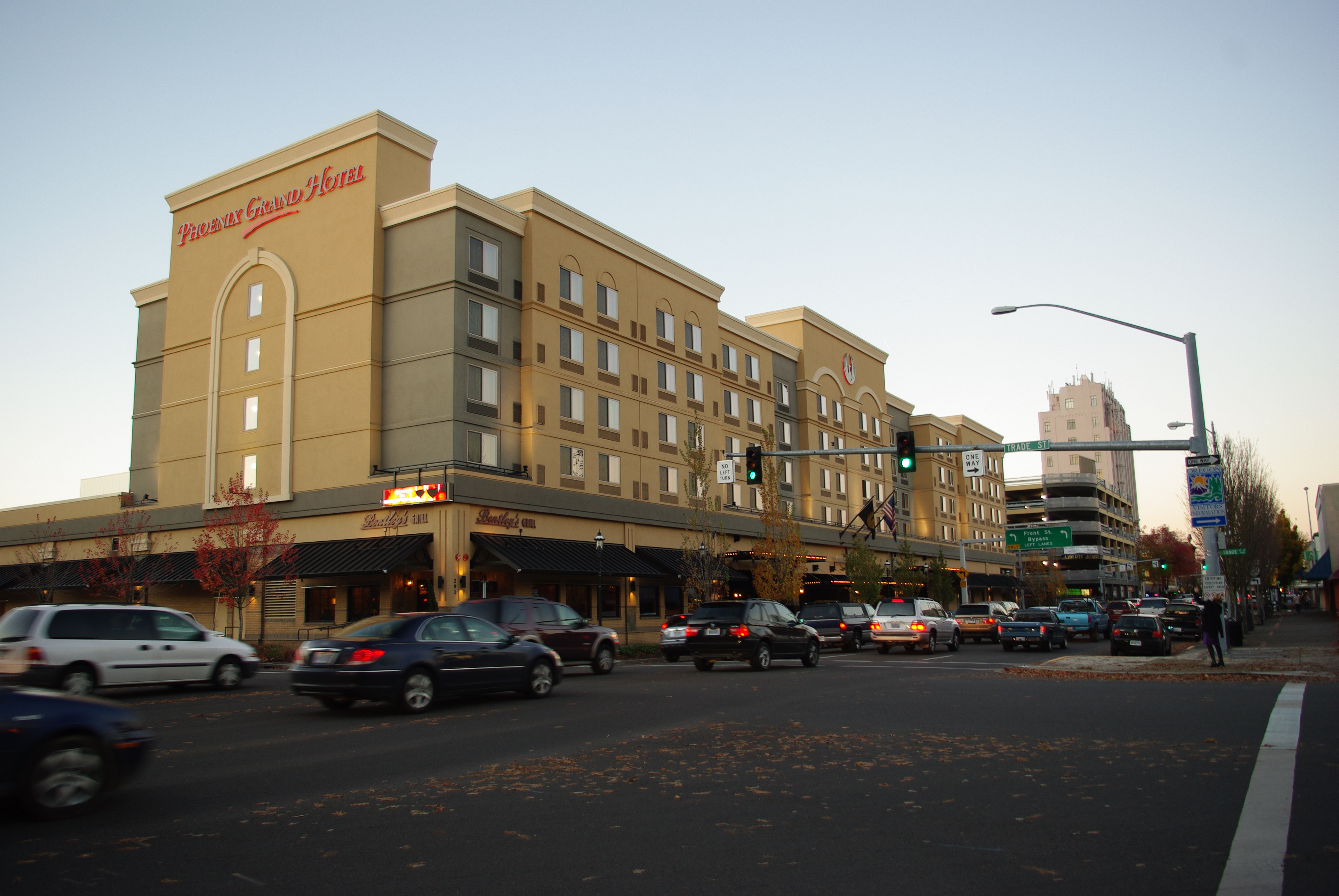 Downtown Salem, Oregon